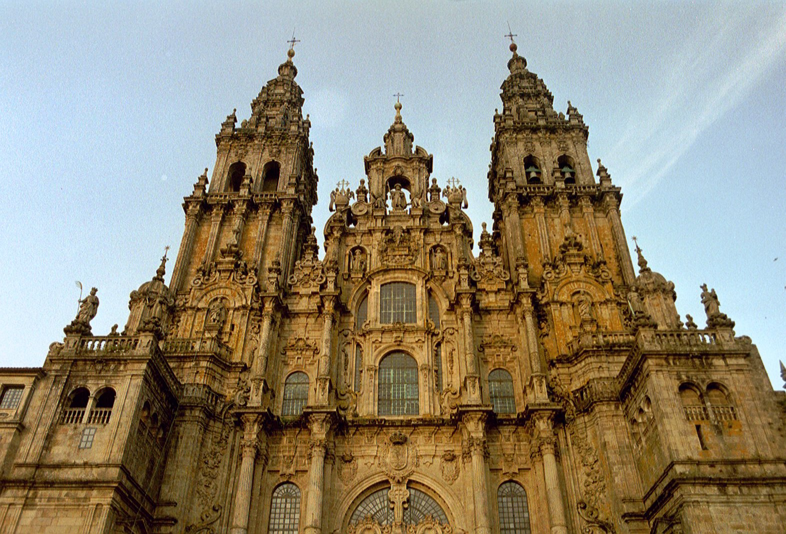 Cathedral of Santiago de Compostela, photographed by Niels Bosboom in July 2003.